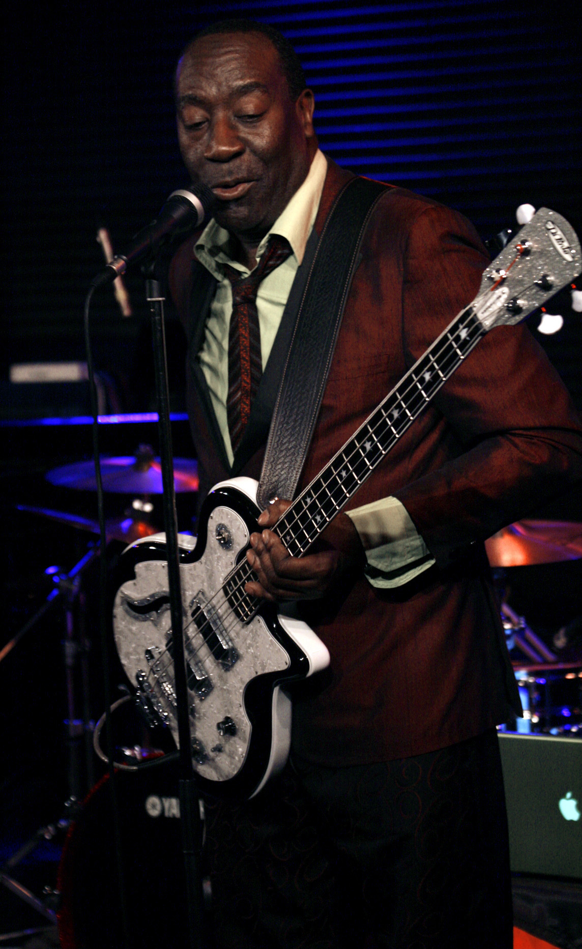 Jamaaladeen Tacumas Coltrane Configurations with Tony Kofi (sax.), Orrin Evans (p.) and Tim Hutson (dr.) at the Reigen in Vienna (Austria). Bass guitar: DiPinto Belvedere Deluxe Bass